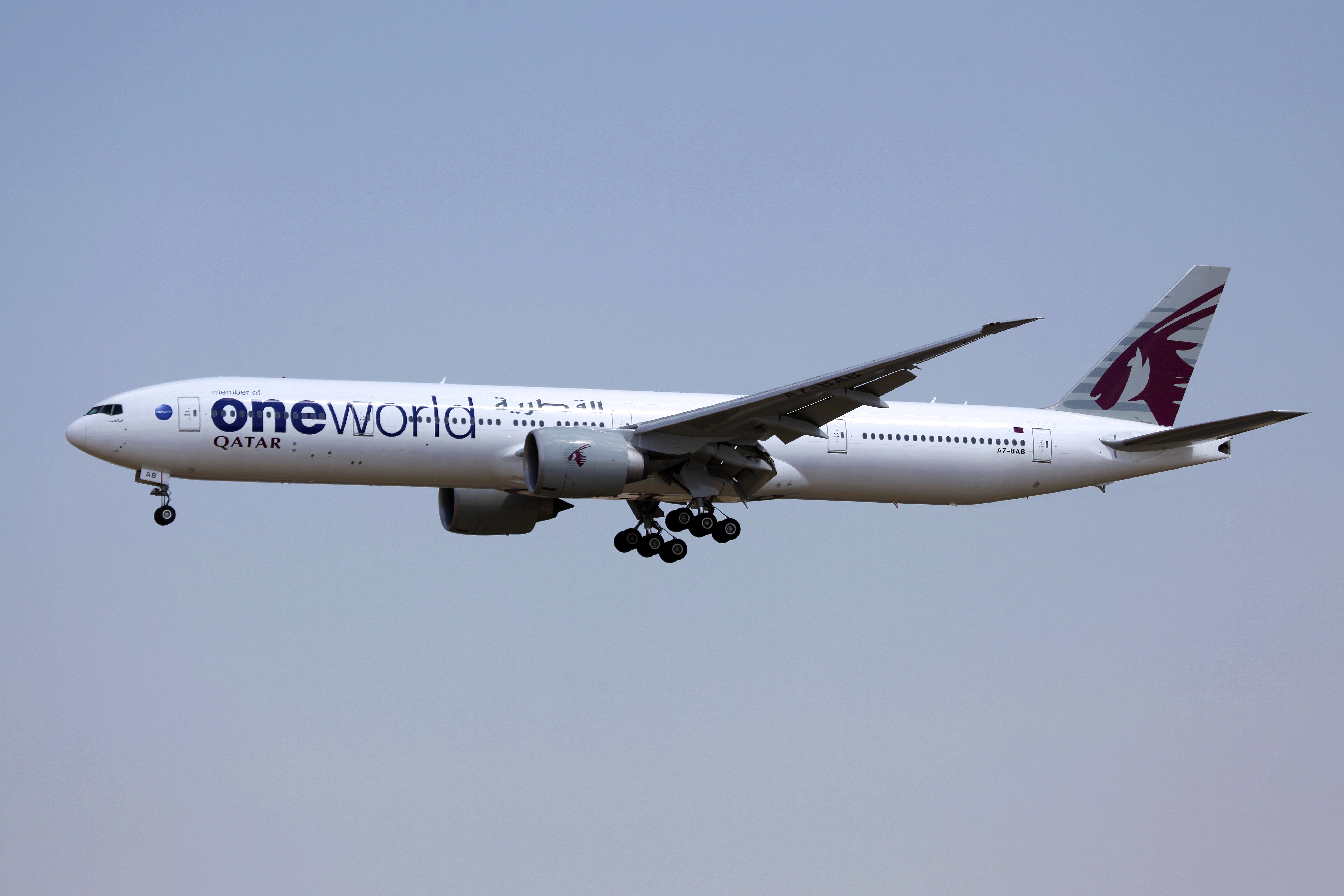 Qatar Airways Boeing 777-3DZ(ER) Oneworld Livery Beijing Capital International Airport [PEK]